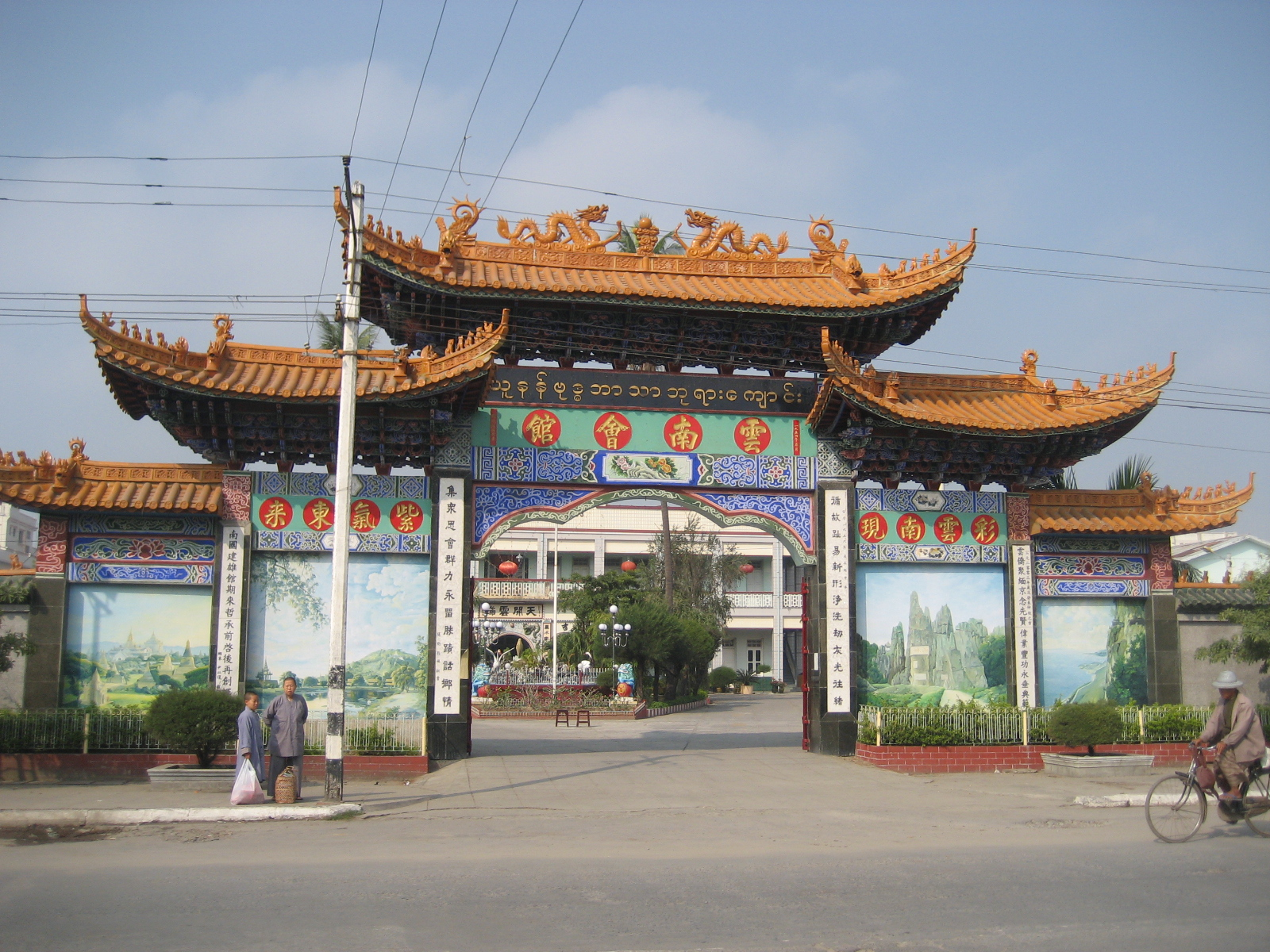 A Burmese Chinese Yunnanese Temple on 80th & 32nd in Mandalay, Myanmar.